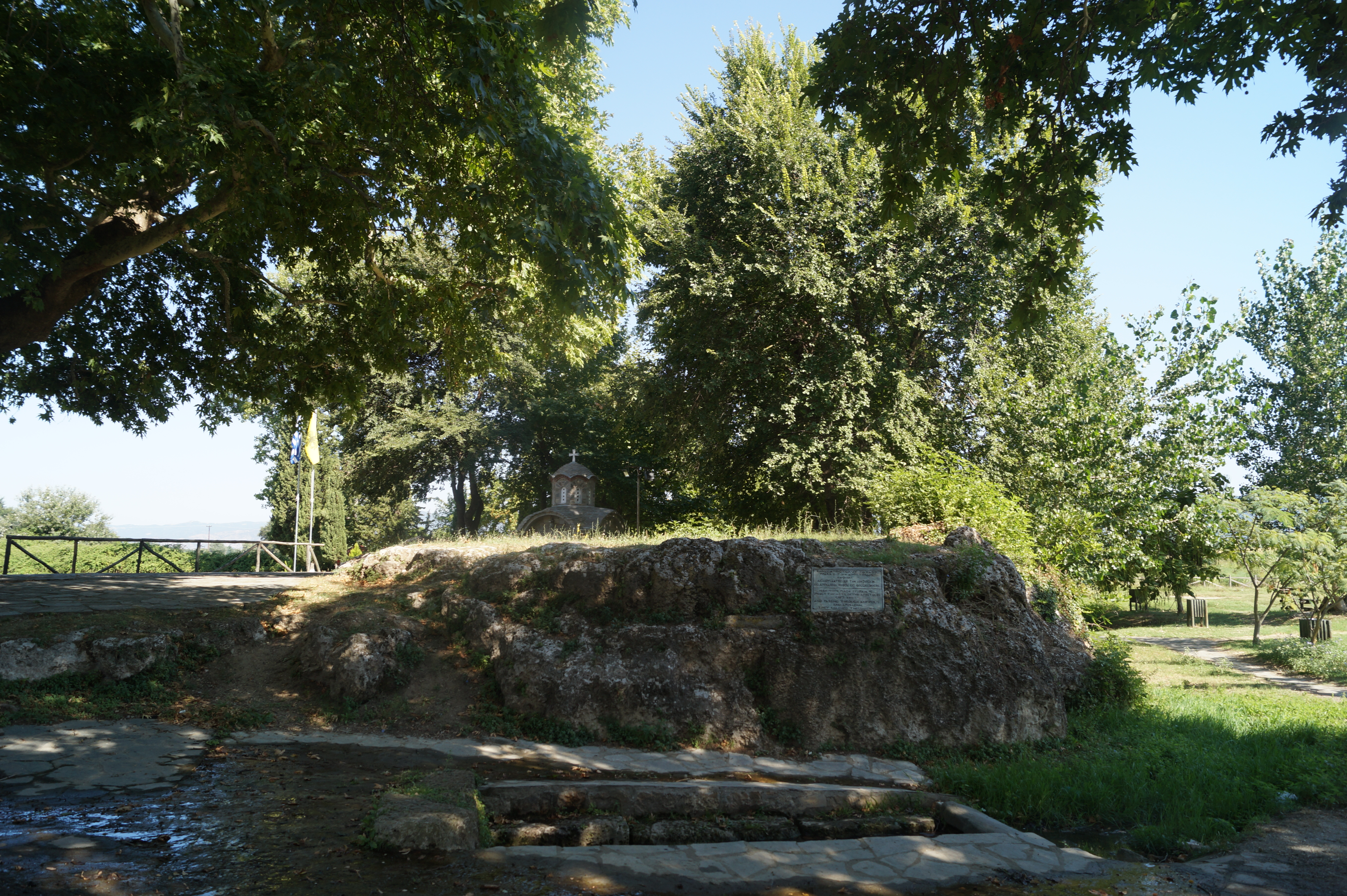 Apollonia, Makedonia, Greece: Bema of Paul the Apostle.